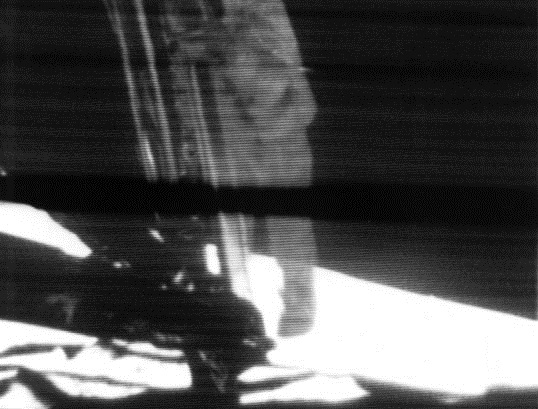 Neil Armstrong (1930–2012), commander of NASA's Apollo 11 mission, descends the ladder of the Apollo Lunar Module to become the first human to set foot on the surface of the Moon. See related video here.